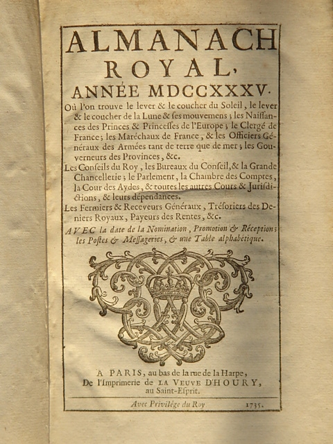 Almanach royal, frontispice.